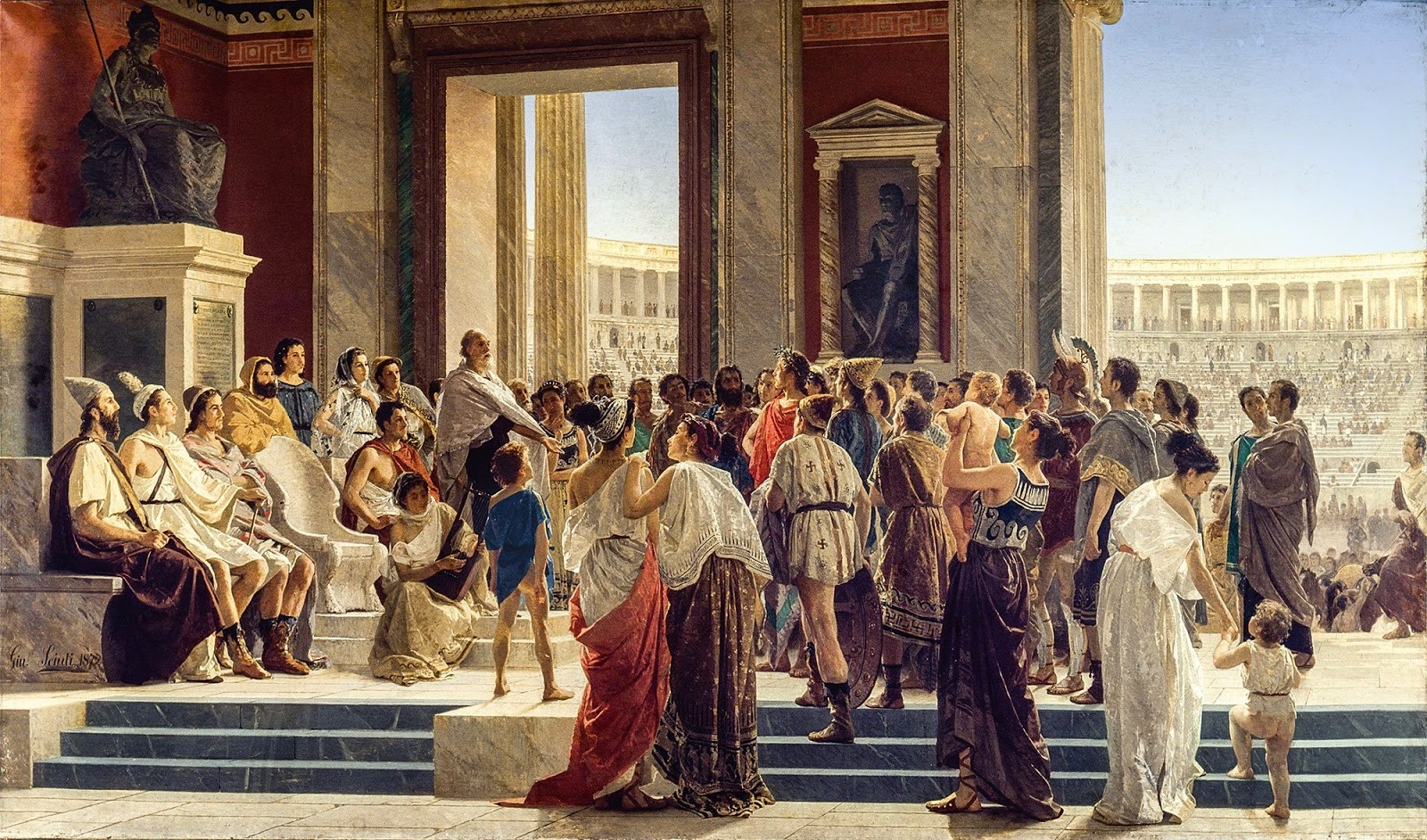 Pindaro esalta un vincitore nei giochi olimpici (Pindar enhances a winner in the Olympic Games). Oil on canvas by Giuseppe Sciuti, 1872.